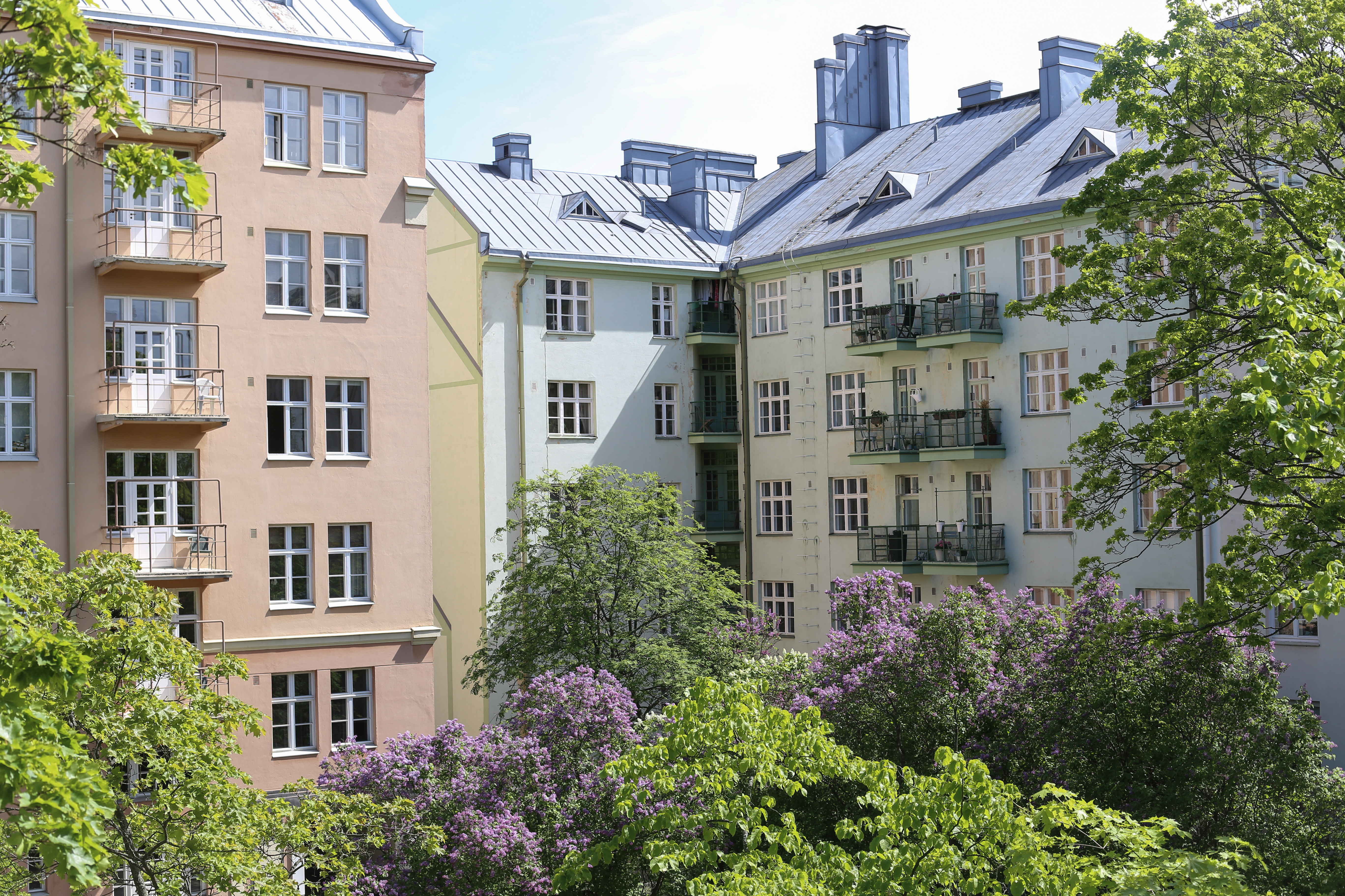 A view from yard inside Sirkkalankatu